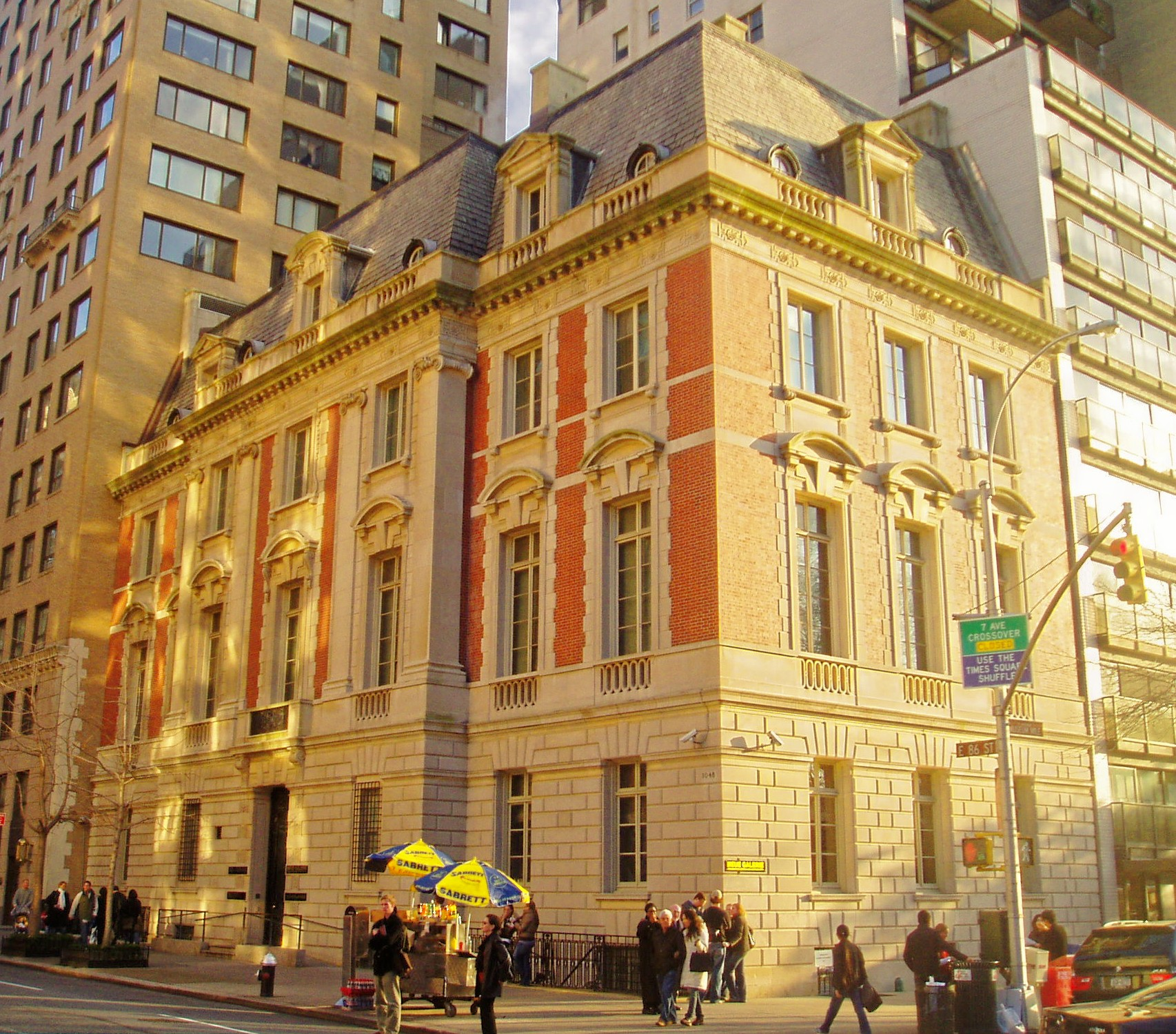 Neue Galerie, New York, NY November 2006, photo by user:Ekem